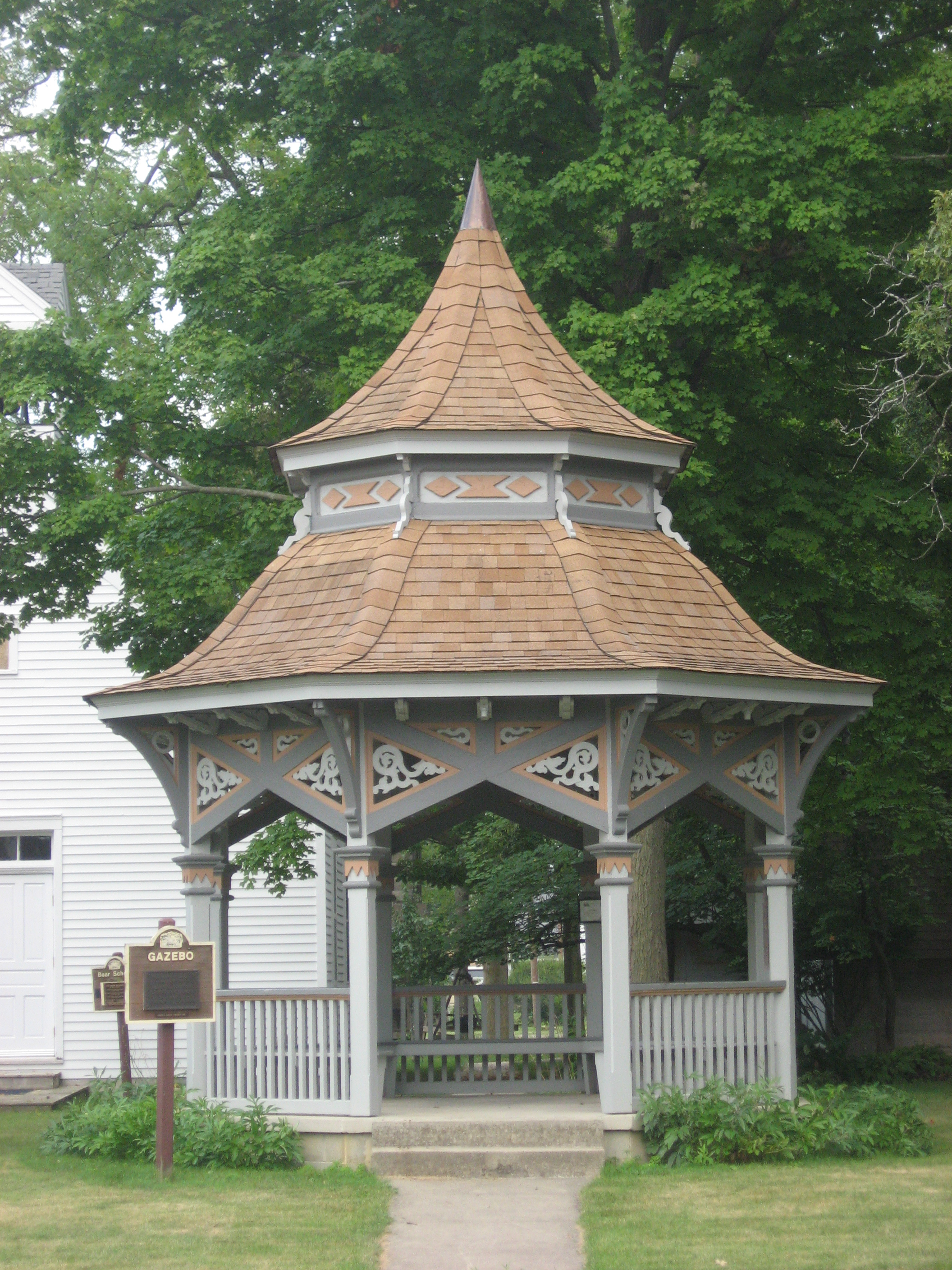 Front of the Van Wert Bandstand, located on the grounds of the Van Wert County Historical Museum at 602 N. Washington Street (U.S. Route 127) in Van Wert, Ohio, United States. Built in 1874 and recently moved from the Van Wert County Fairgrounds, the bandstand is listed on the National Register of Historic Places.